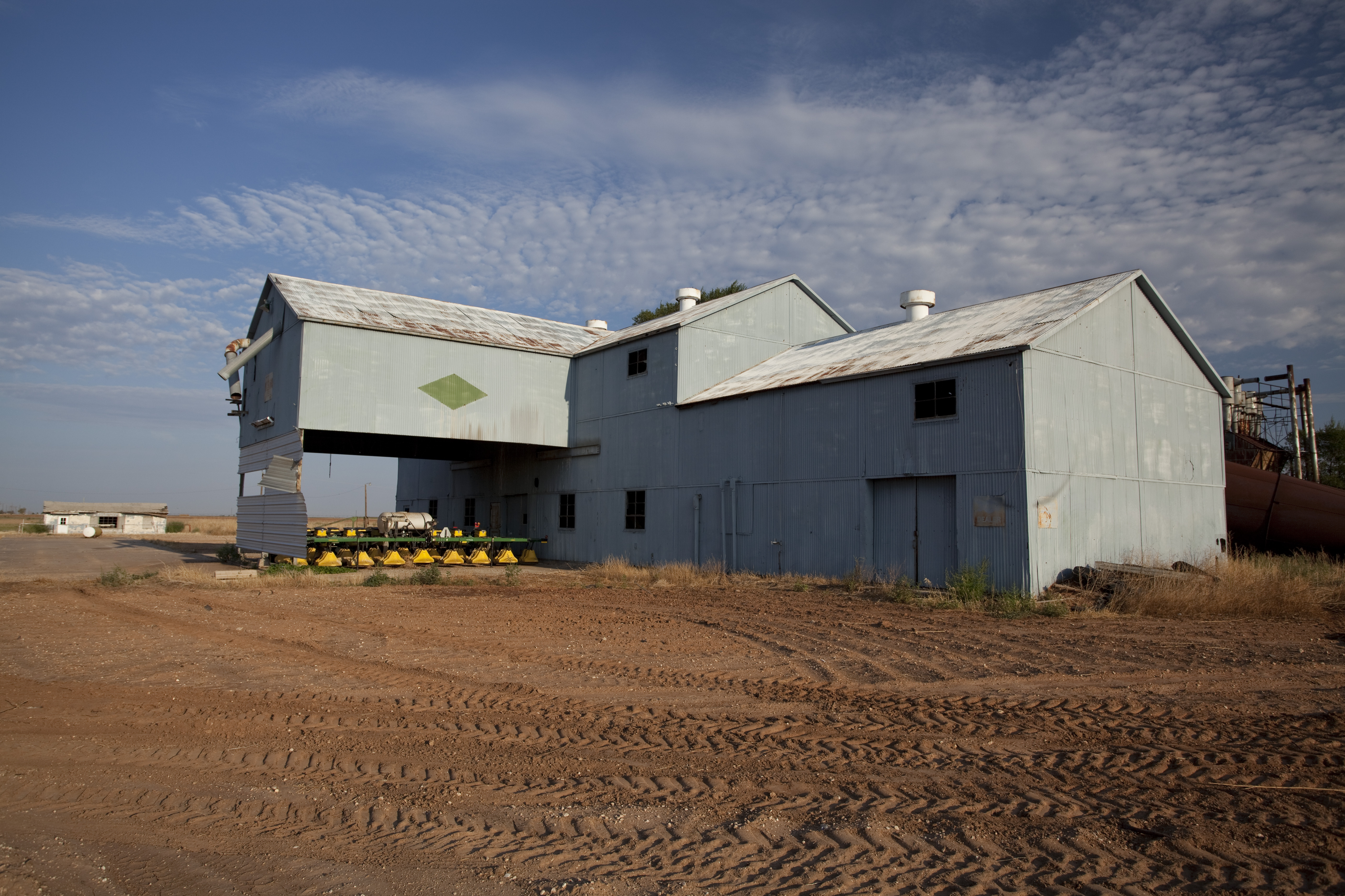 Abandoned cotton gin in the ghost town of Savage, Crosby County, Texas. Located at the intersection of FM 40 and FM 2576